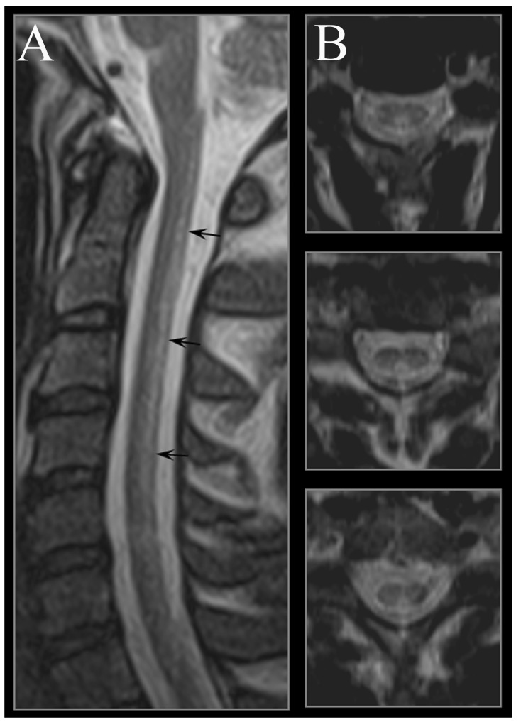 Cervical spinal cord MRI in a 49-year-old male presenting with subacute combined degeneration due to a deficit of B12. (A) The midsagittal T2 weighted image shows linear hyperintensity in the posterior portion of the cervical tract of the spinal cord (black arrows). (B) Axial T2 weighted images reveal the selective involvement of the posterior columns.